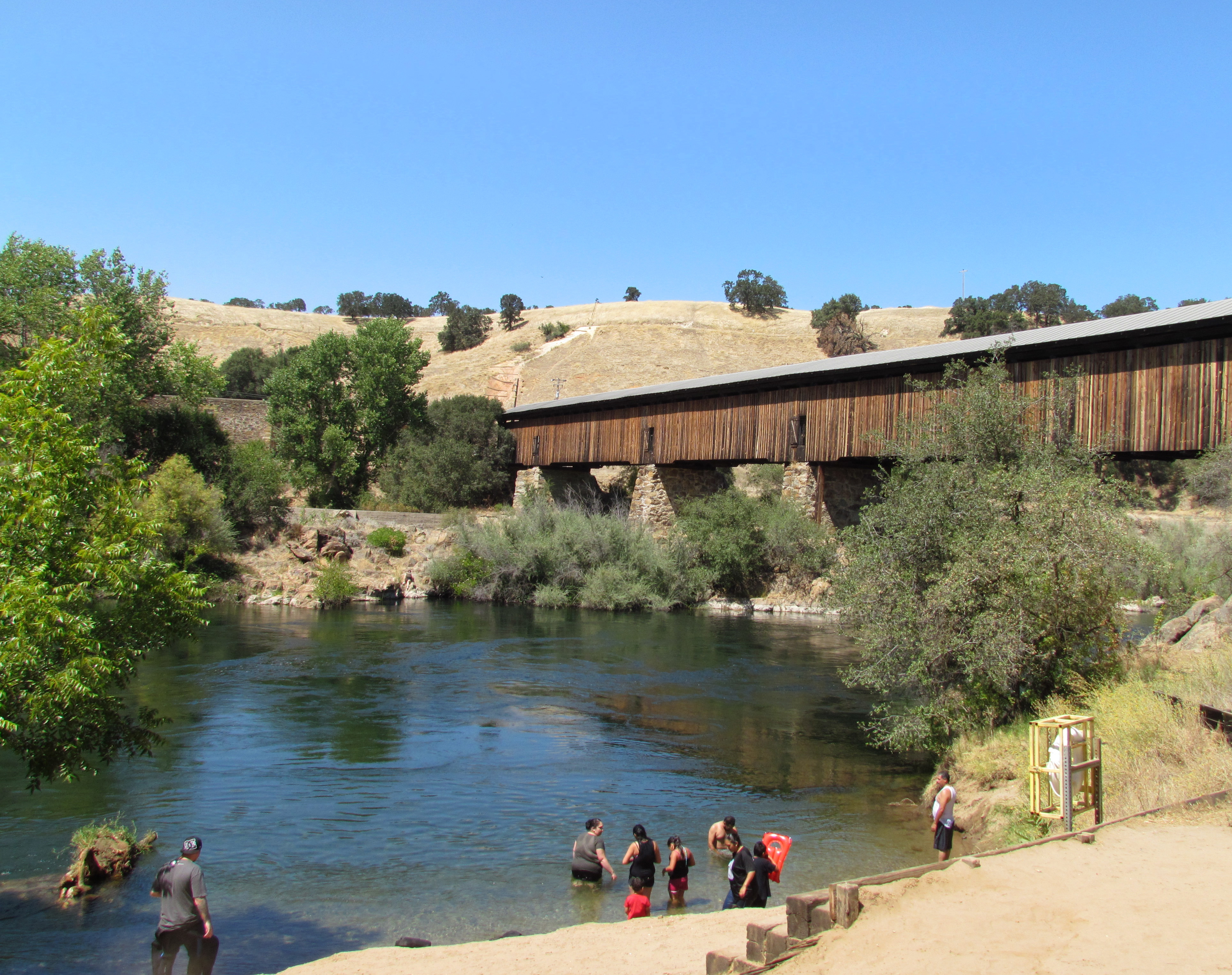 Stanislaus River at the historic Knights Ferry Covered Bridge, August 2011. Slightly cropped from original and added contrast in Photoshop.